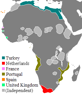 Map showing European claims on Africa in 1800.